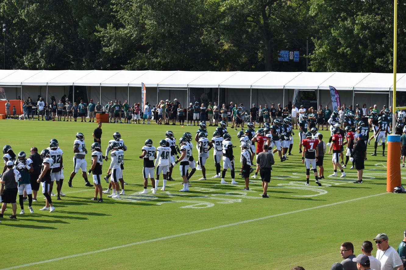 The Philadelphia Eagles at the NovaCare Complex during training camp, 2019. Nikon D3500